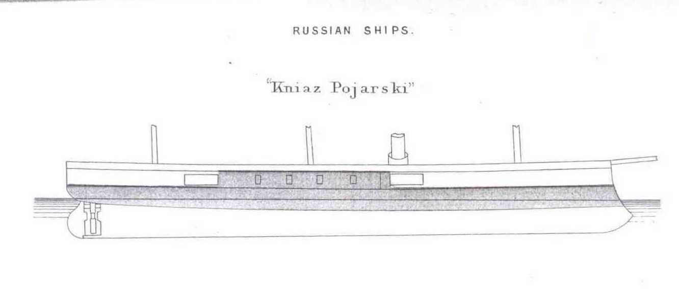 Russian ironclad Kniaz Pozharski, launched 1867 and removed from the Navy List in 1911.